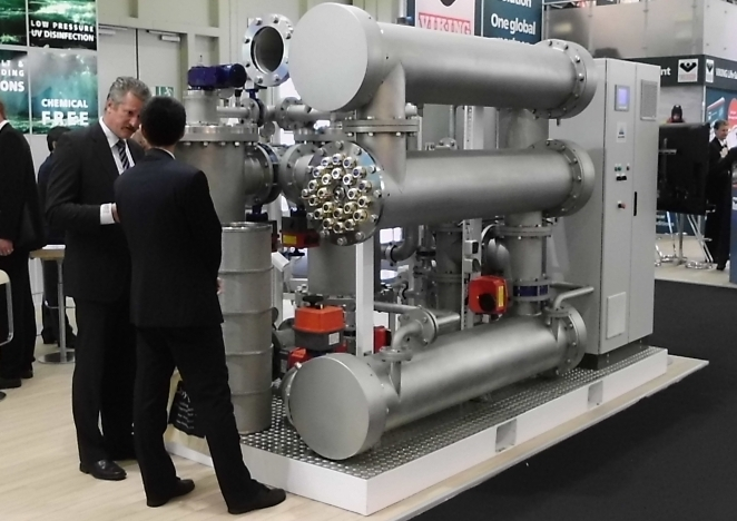 Ballast water treatment device